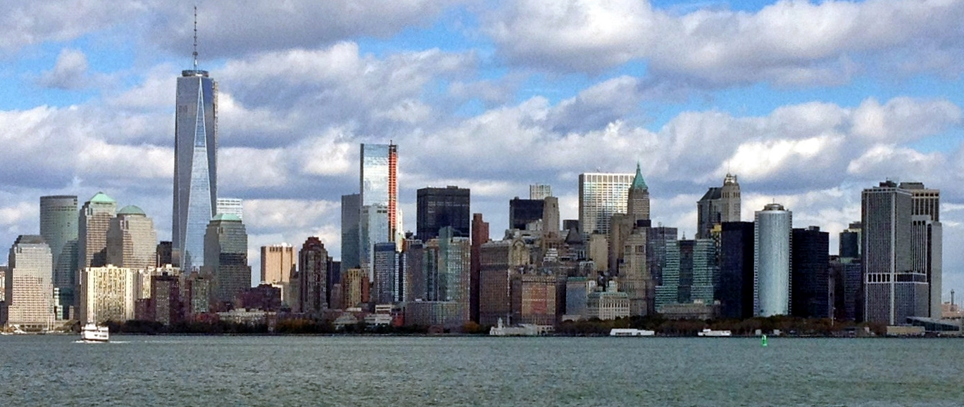 South Manhattan skyline in october 2013.